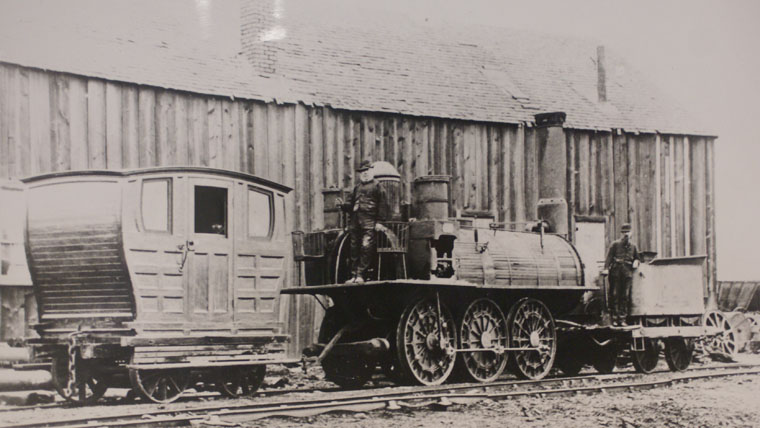 General Mining Association's (GMA's) 0-6-0 steam locomotive 'Samson' at Albion Mines, Pictou County. The locomotive was built by Timothy Hackworth of Shildon, County Durham, UK and went into service on the first part of the new railway in 1839. Samson is preserved at the Nova Scotia Museum of Industry in Stellarton. The coach is now in the Baltimore & Ohio Museum, Baltimore.